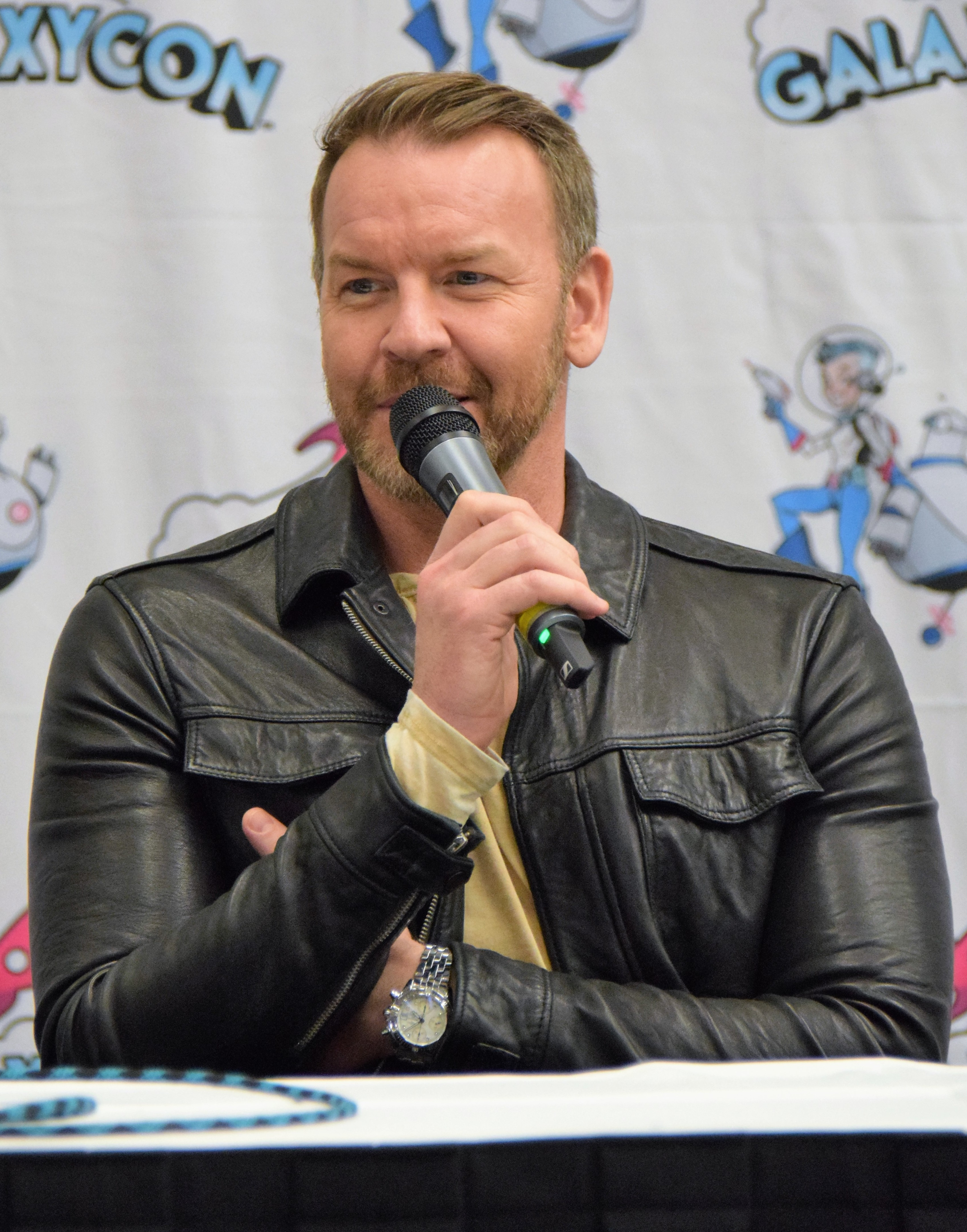 Christian Q&A of Awesomeness Hero Stage